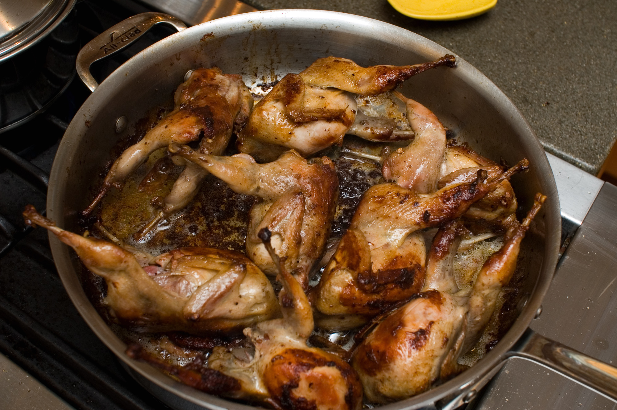 Quails browning